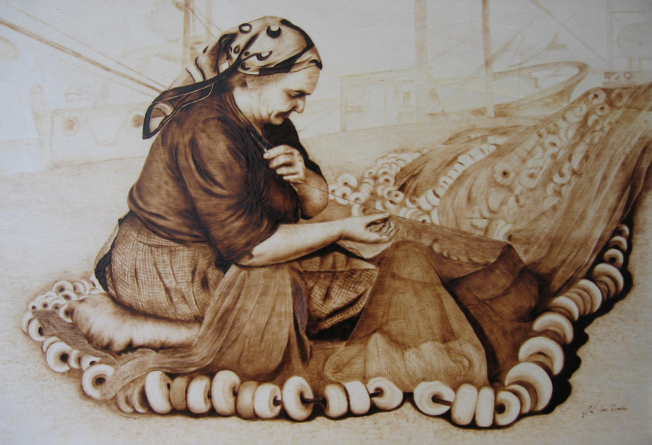 A woman sewing nets. Pyrography on wood panel.